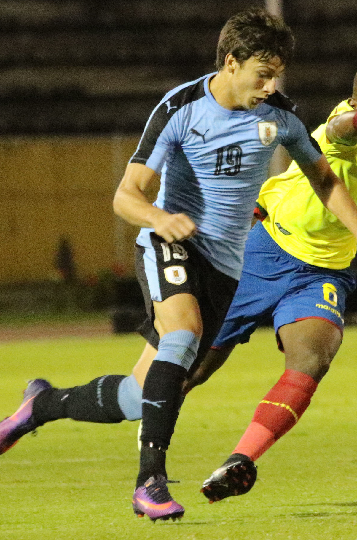 ECUADOR VS URUGUAY SUB 20